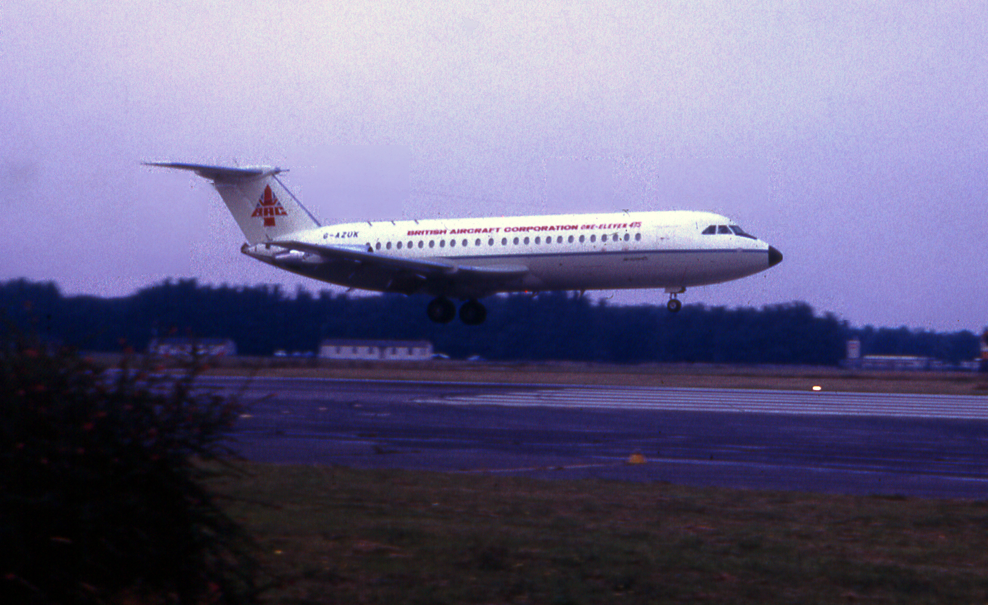 British Aircraft Corporation (BAC) One Eleven 475 (G-AZUK), Bournemouth, England 1971